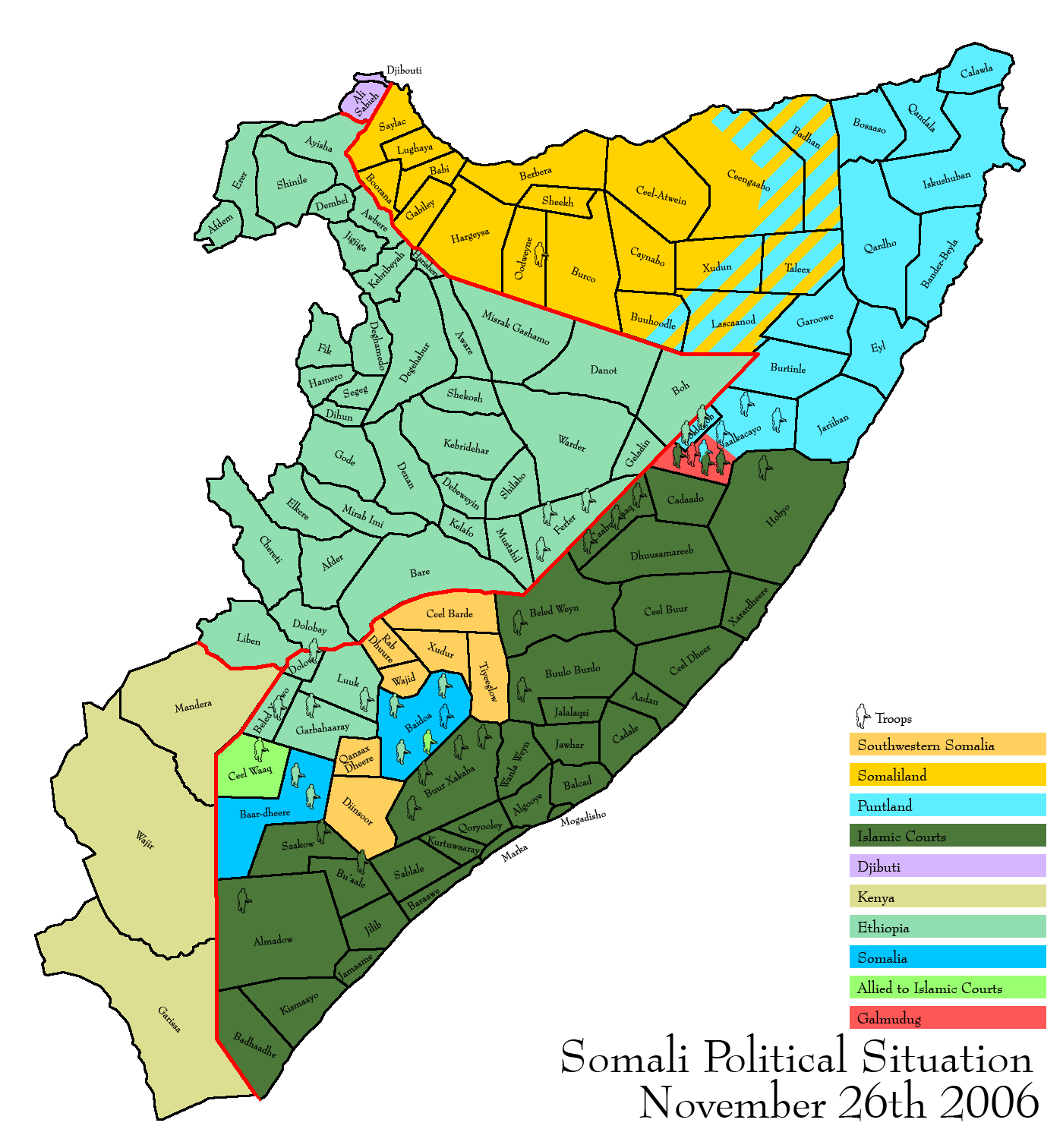 Somali political situation as of November 26, 2006.